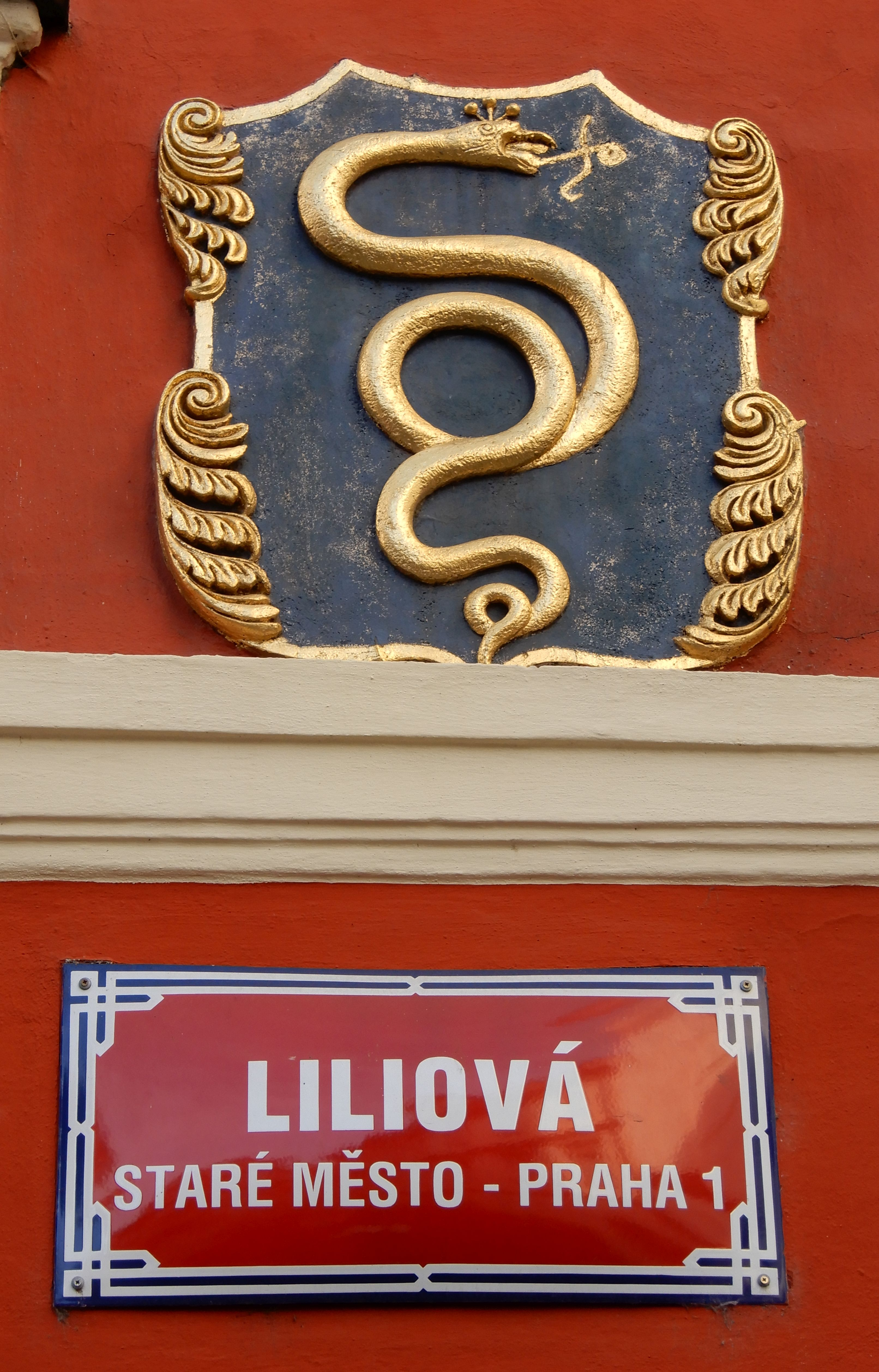 House sign "Golden serpent", No. 181-I , corner of Liliová and Karlova street, Prague - Old Town